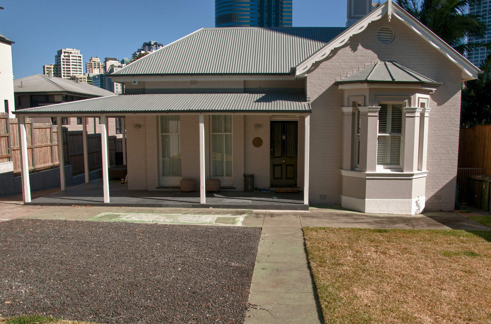 A photo of Sunnyside, Kangaroo Point taken by blogger "the foto fanatic". I reached out via email to the copyright holder and he licensed it under a Creative Commons Attribution-Sharealike 3.0 Unported License. I have sent an email containing this correspondence to "permissions-commons AT wikimedia DOT org"